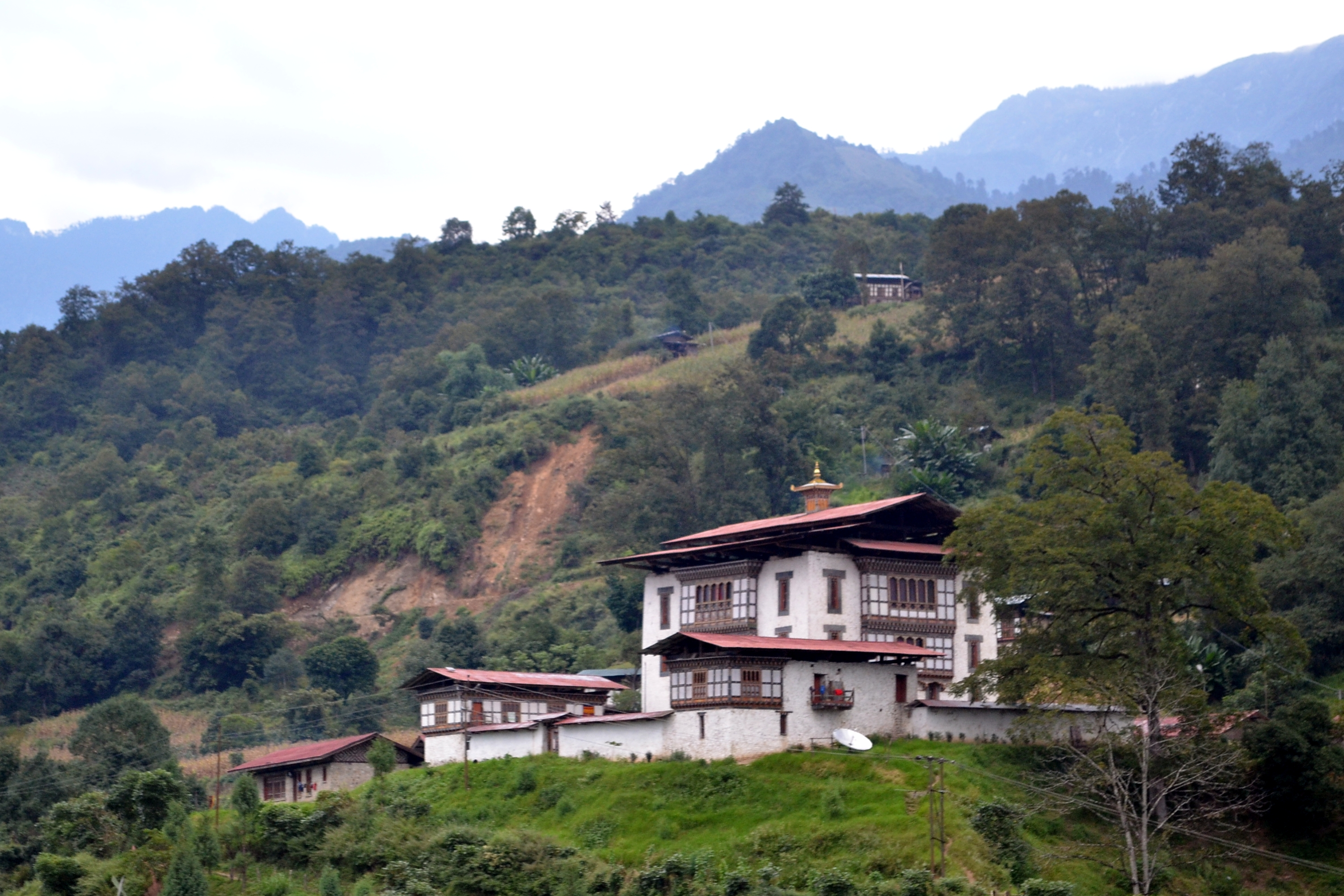 Dungkar Nagtsang (Jigme Namgyal Nagtshang). Family home of Gongsar Ugyen Wangchuck, the 1st King of Bhutan. Dungkar , Kurtoe Gewog, Lhuentse District, Bhutan